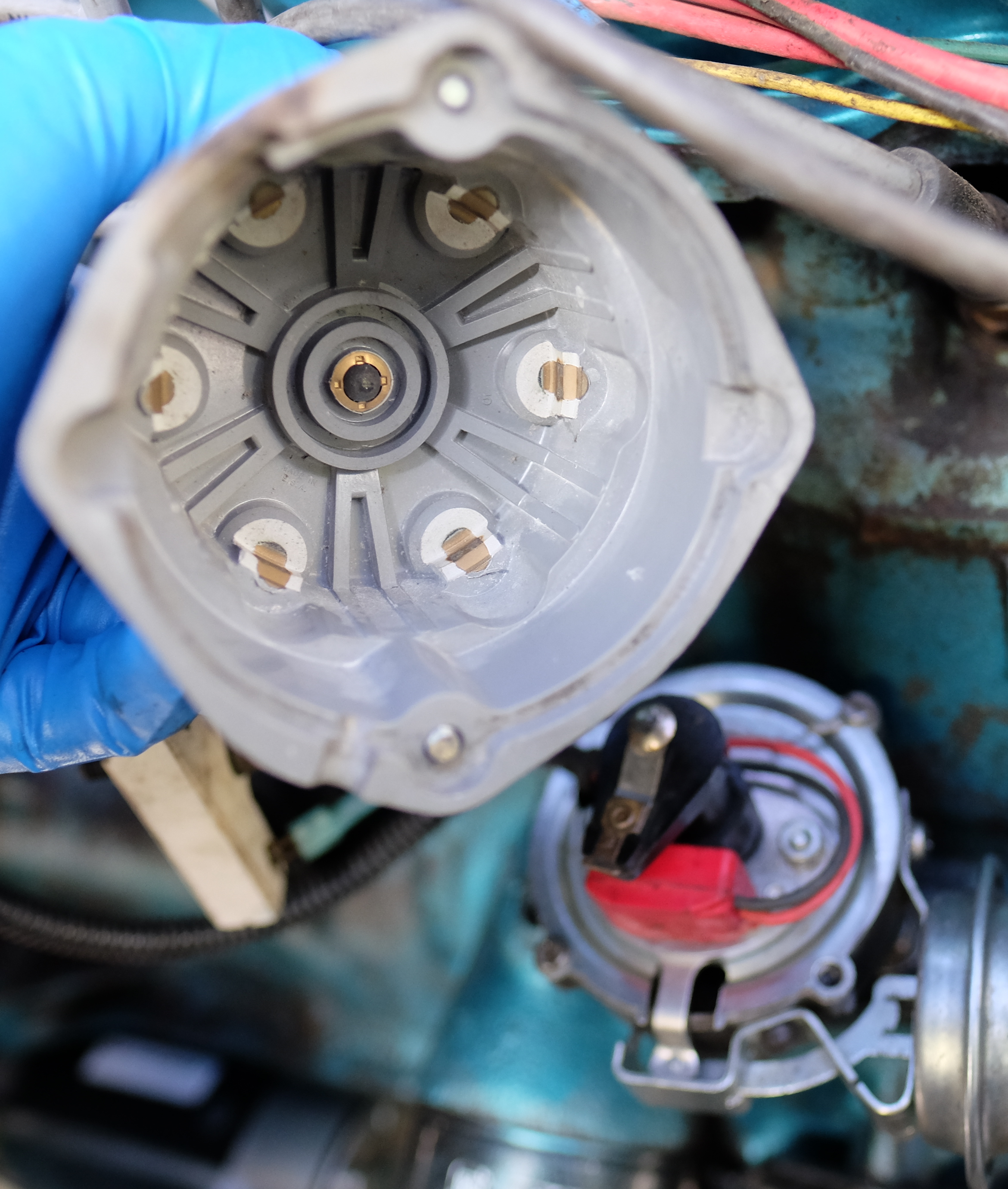 Distributor cap of 1974 Jeep CJ5 with 232 cu. in. (3.8L) AMC inline-6 engine. Original breaker points have been replaced with electronic ignition